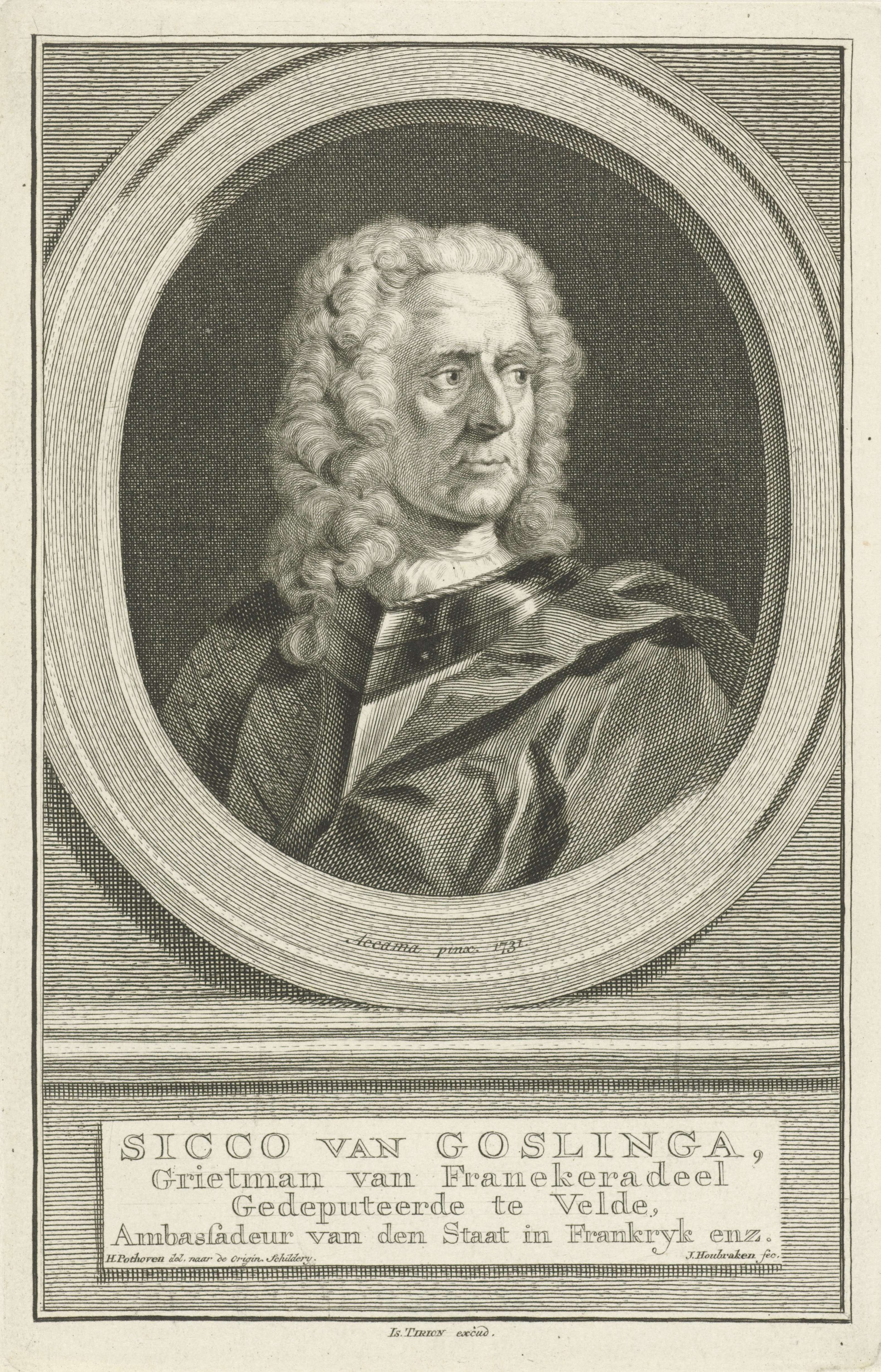 Engraved portrait of Sicco van Goslinga, Frisian statesman (1664-1731)